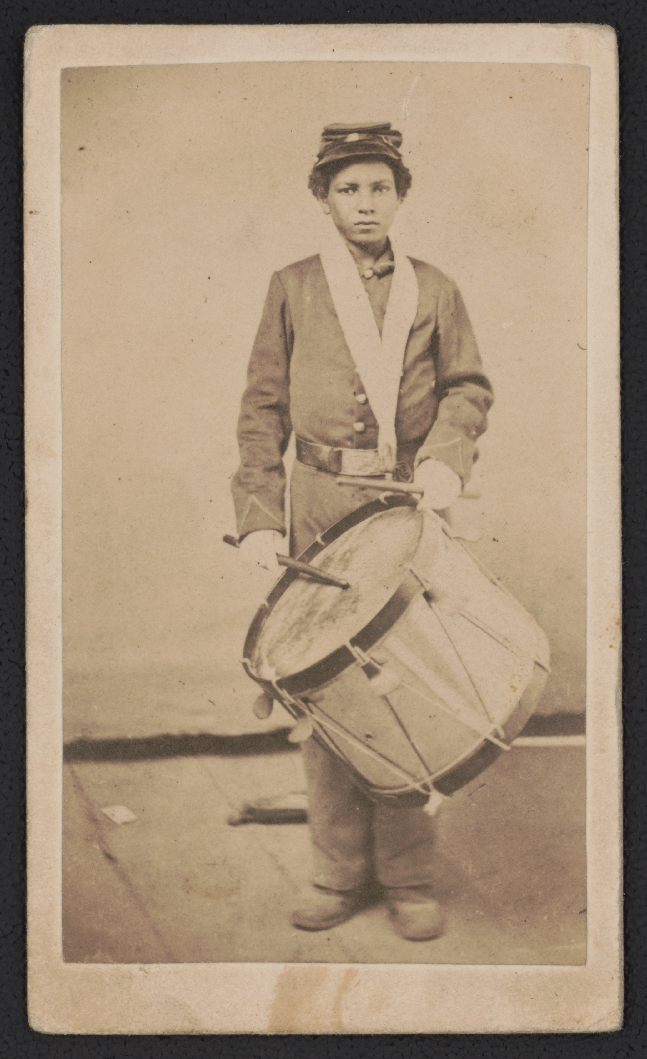 Title: Taylor, young drummer boy for 78th Colored Troops Infantry, in uniform with drum Abstract/medium: 1 photograph : albumen print on card mount ; mount 11 x 6 cm (carte de visite format)